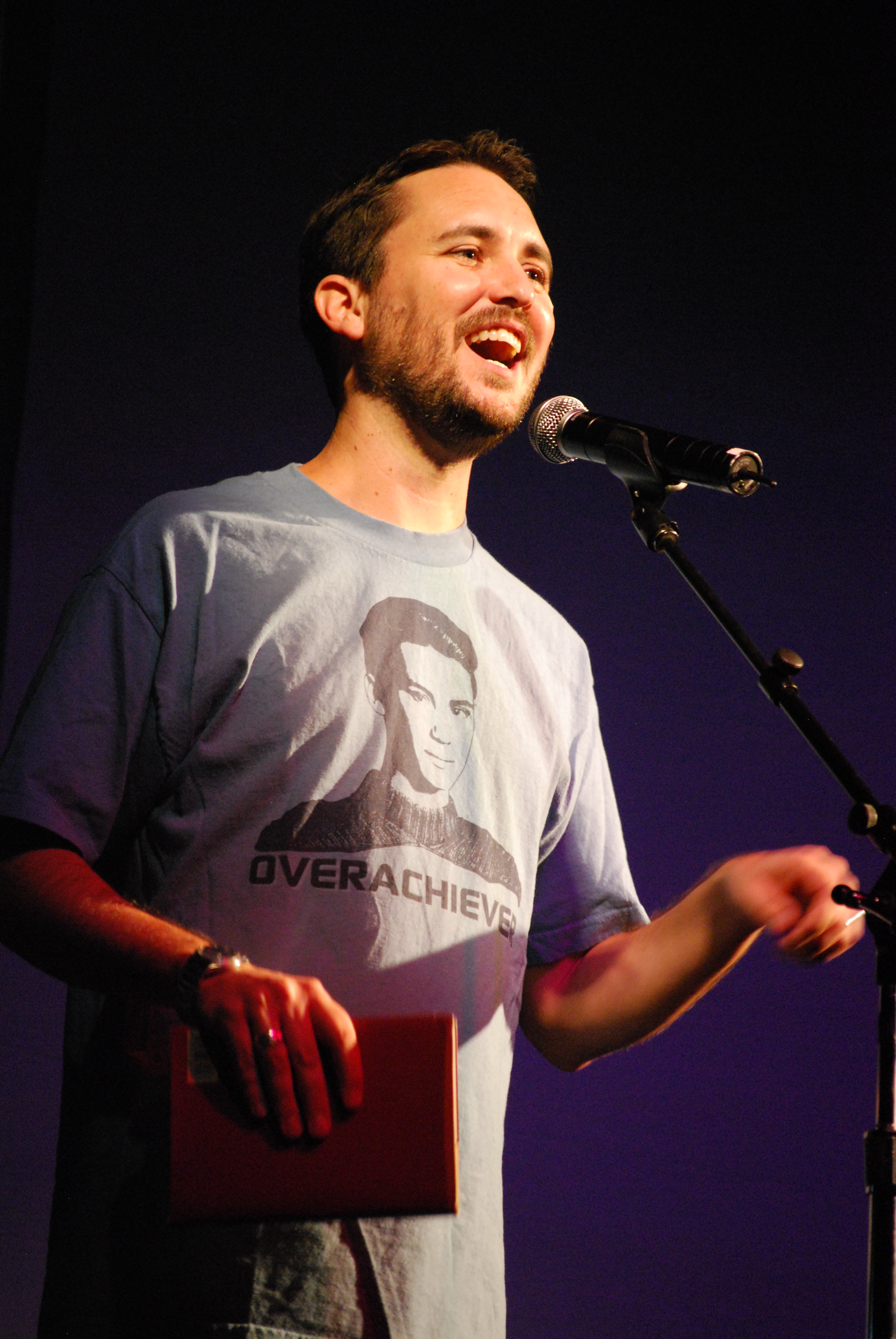 At W00tstock 2.4 in San Diego. July 22, 2010.